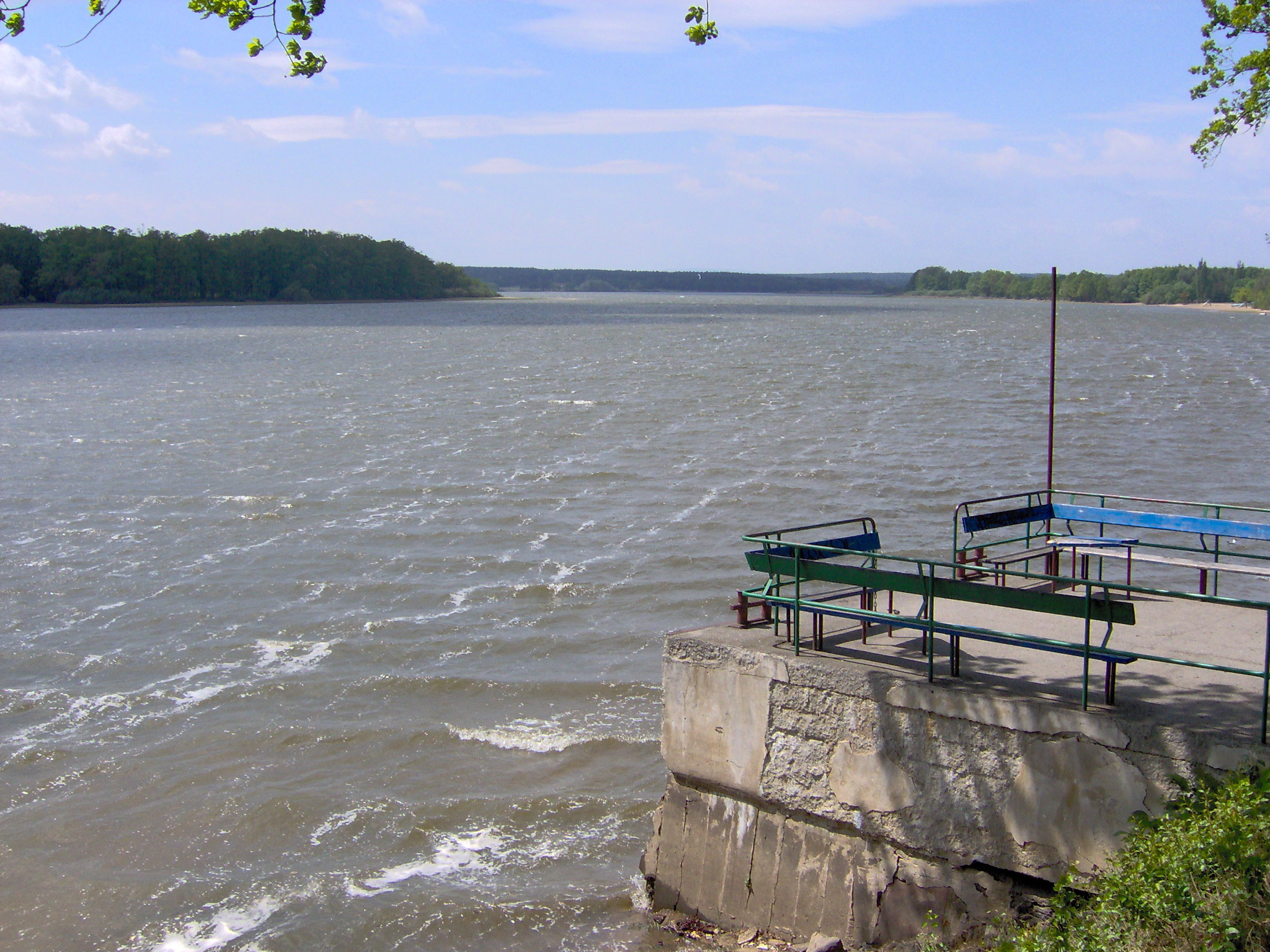 Pond Svět near Třeboň, South Bohemian Region, Czech republic